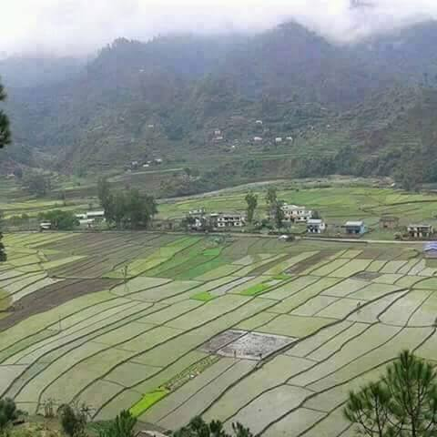 it is avillage of doti dist. in Nepal